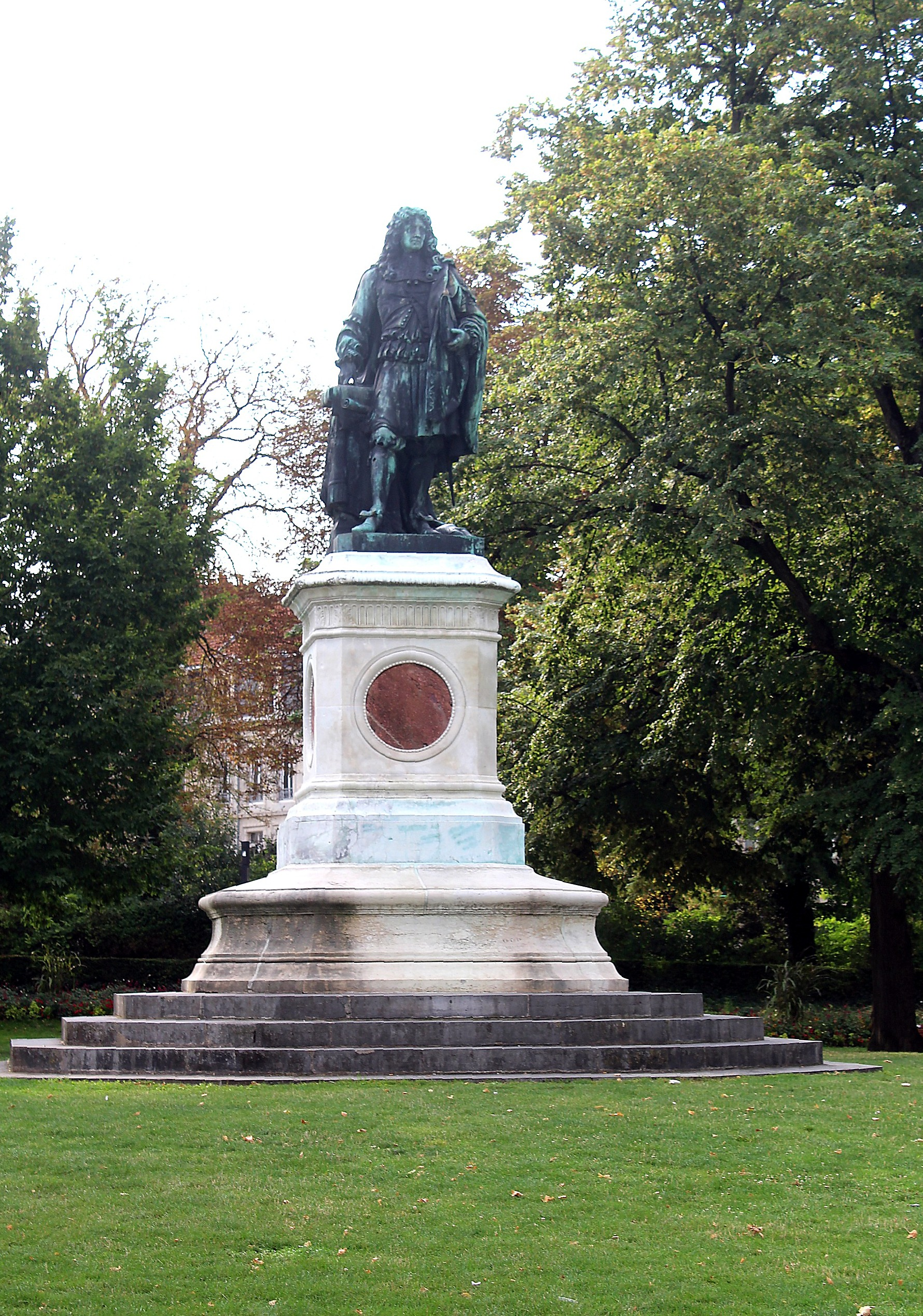 Reims, the statue of Colbert (by Ballu Théodore)